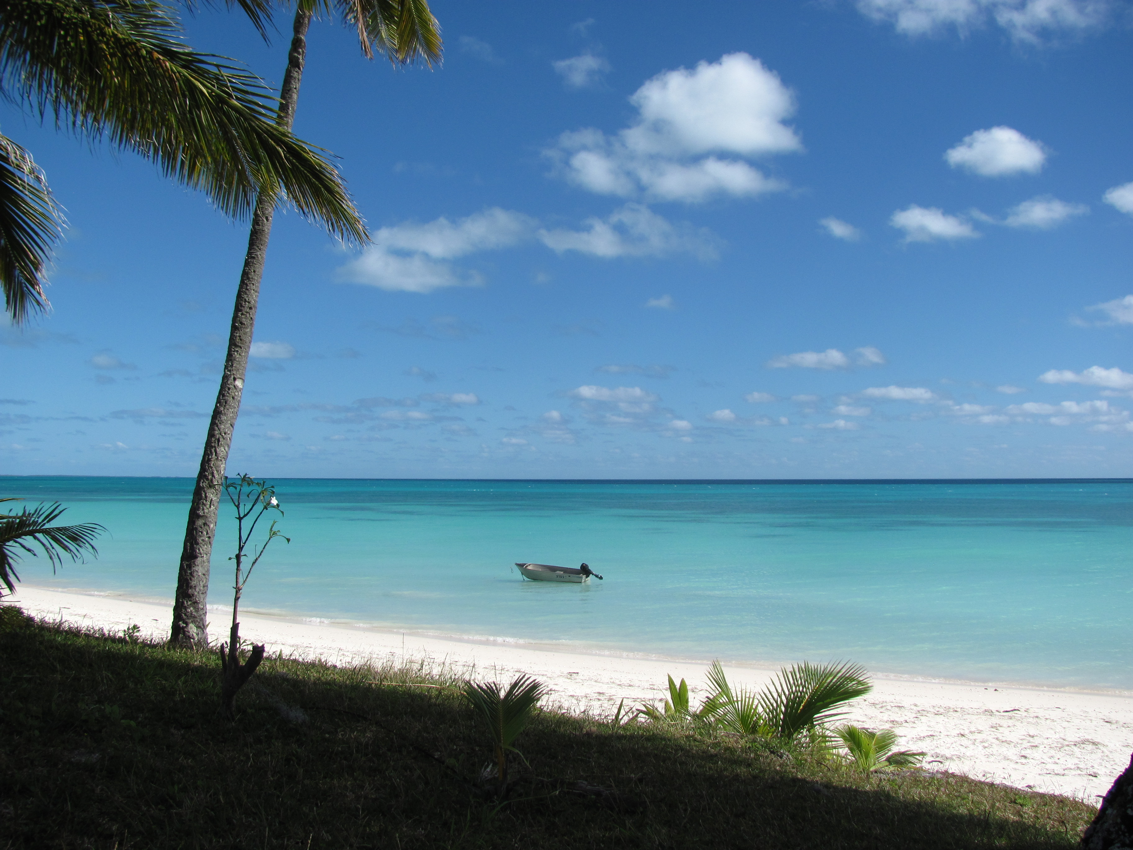 Beach at Wadrilla Village, Ouvéa Island, New Caledonia